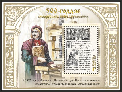 500th anniversary of Belarusian book-printing.